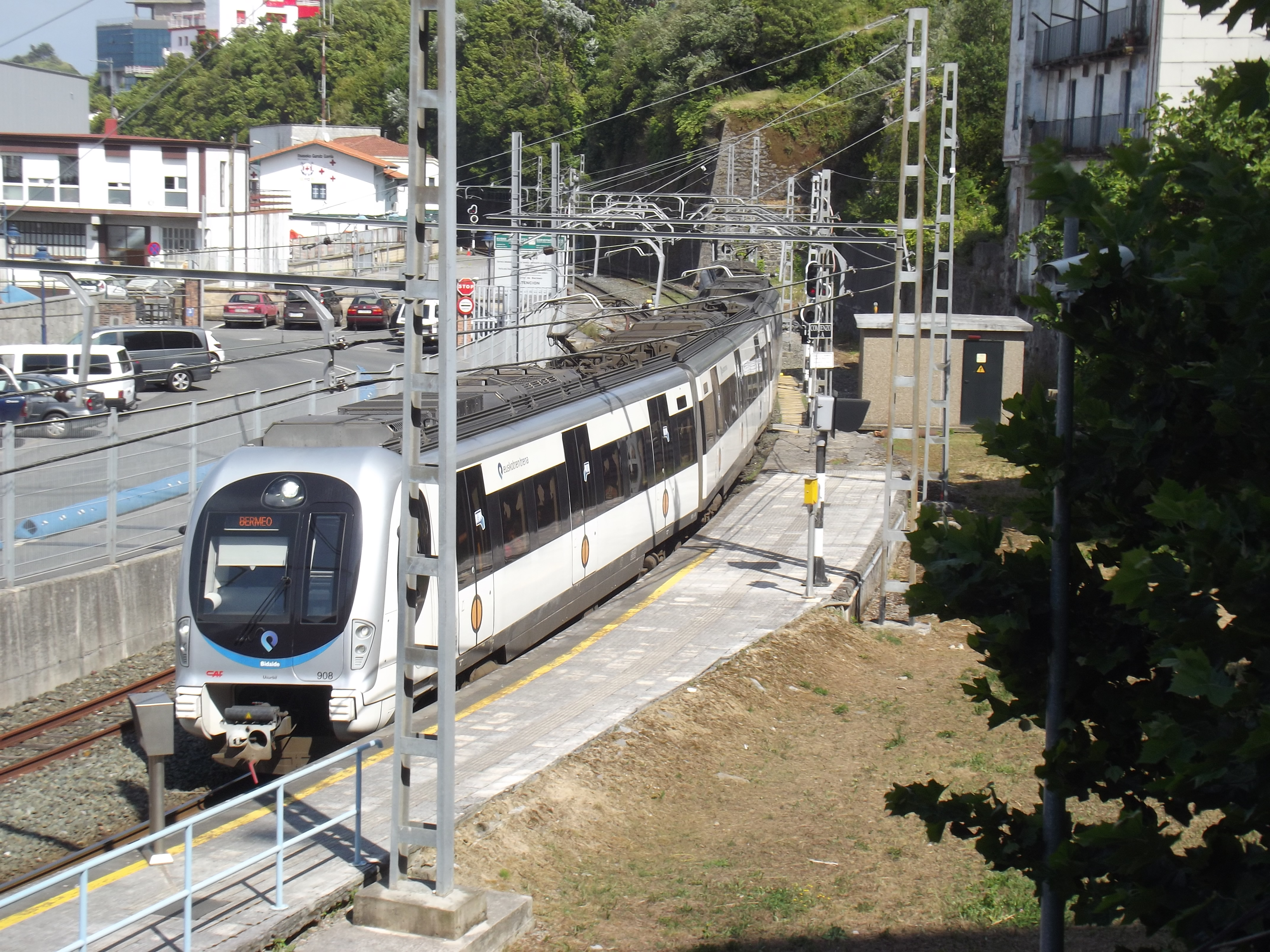 EuskoTren train arriving in Bermeo station